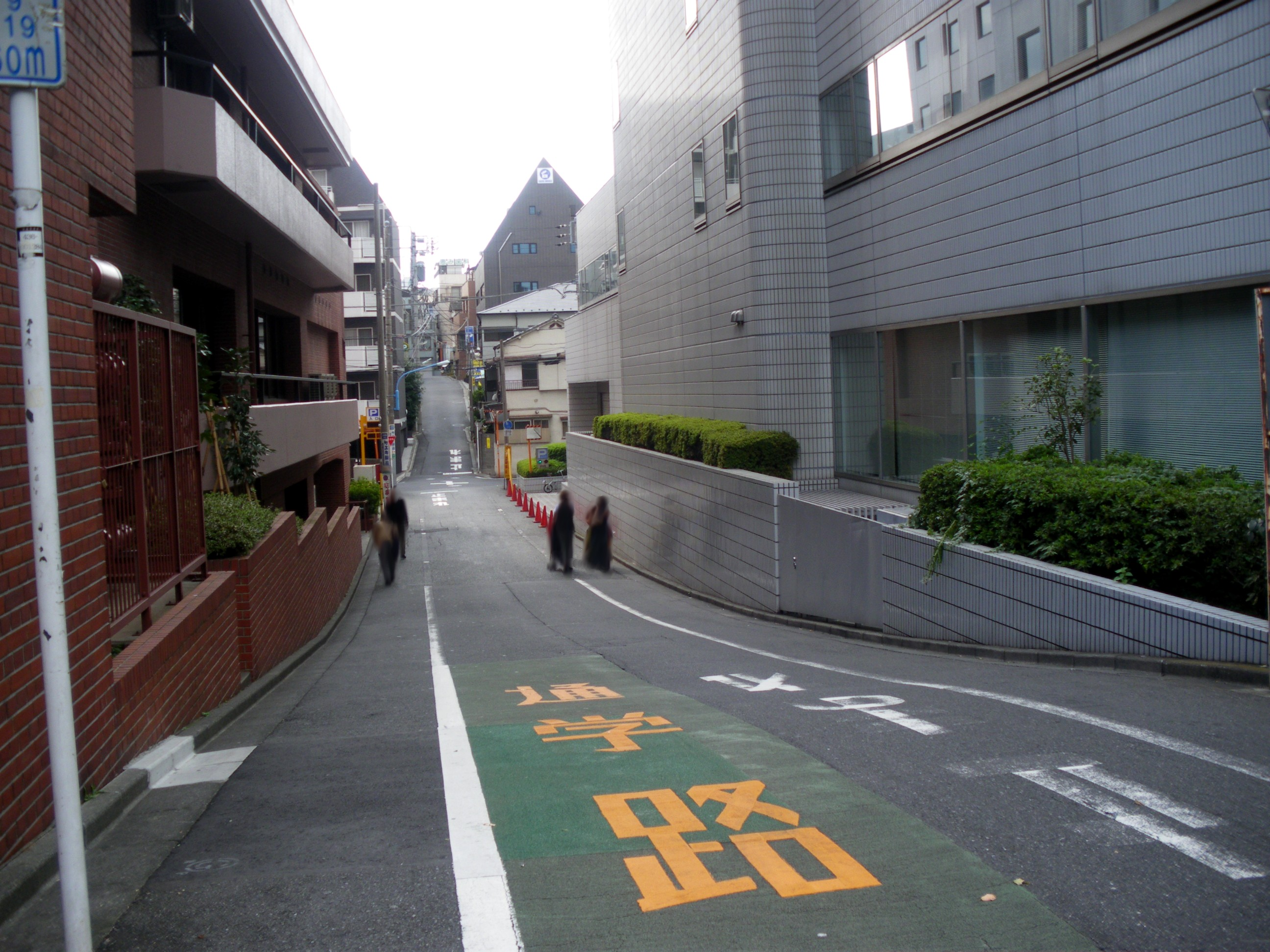 A photo of Former 12so pond site,Nishishinjku,Shinjuku-ku,Tokyo,Japan.